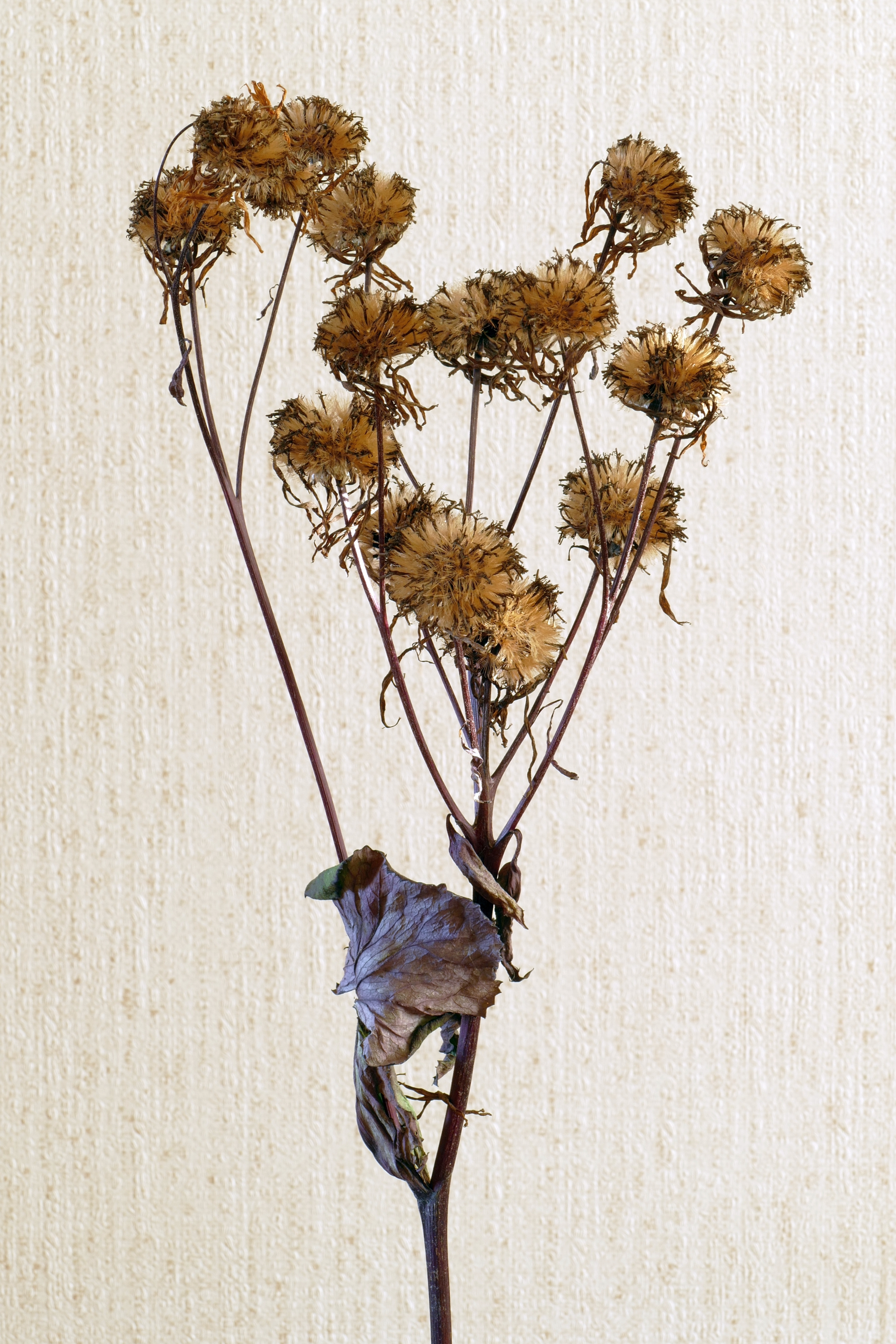 Dried inflorescences of Summer ragwort.